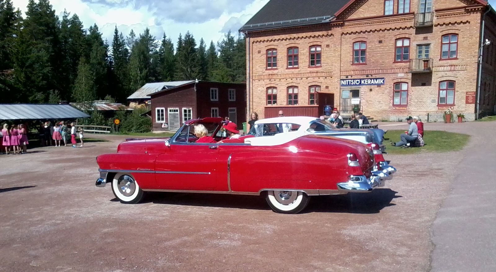 Rättvik Classic Car Week 2016: Classic Lady rally on 31 July, checkpoint on Nittsjö village square. In the background the Nittsjö Keramik factory.